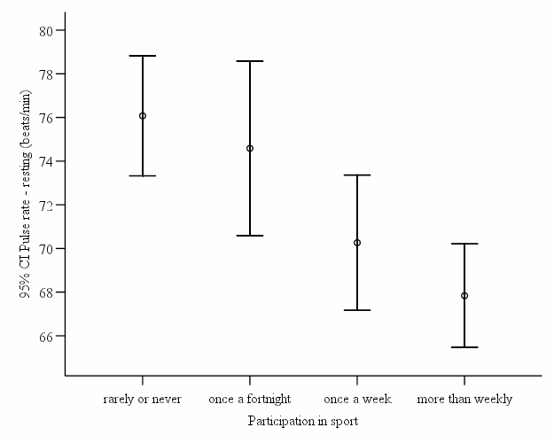 Error-bar graph showing mean pulse rates and 95% confidence intervals by exercise level